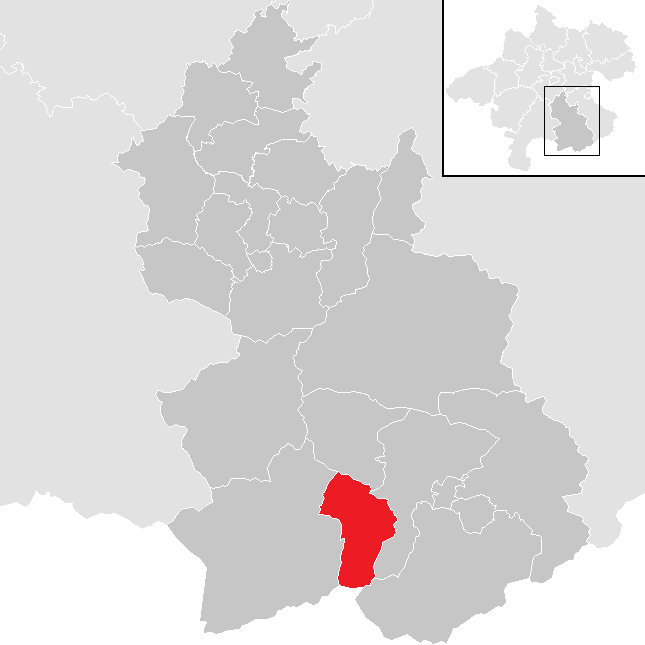 district Kirchdorf an der Krems